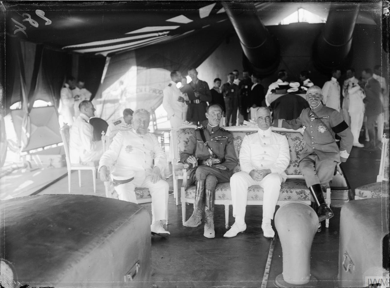 Allied Commanders-in-Chief of the Gallipoli Campaign in conference on board the flagship HMS Queen Elizabeth. Left to right : Vice Admiral A Boue de Lapeyrere, Commander in Chief French Mediterranean Fleet General Sir Ian Hamilton, Commander Mediterranean Expeditionary Force Vice Admiral John M de Robeck, naval commander General Bailloud, GOC Corps Expeditionaire d'Orient.